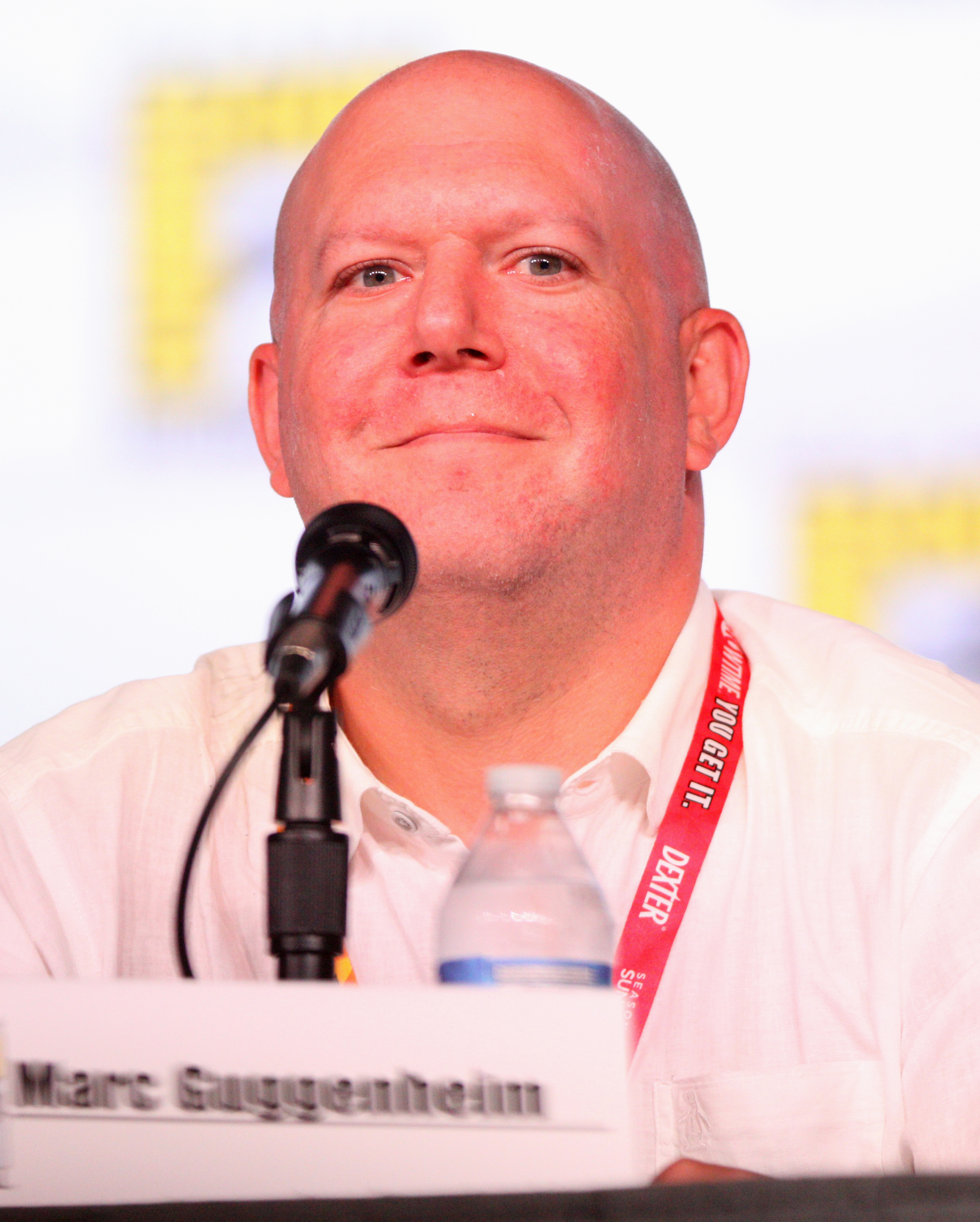 Marc Guggenheim at the 2012 Comic-Con in San Diego.